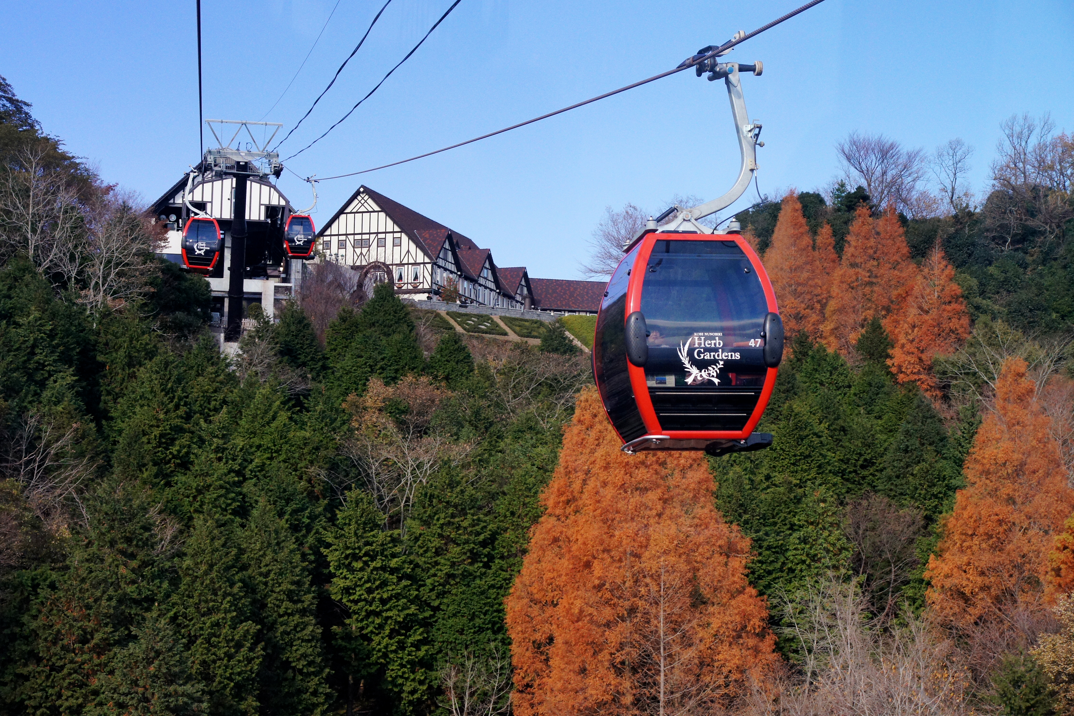 Kobe-Nunobiki Ropeway in Kobe, Hyogo prefecture, Japan.